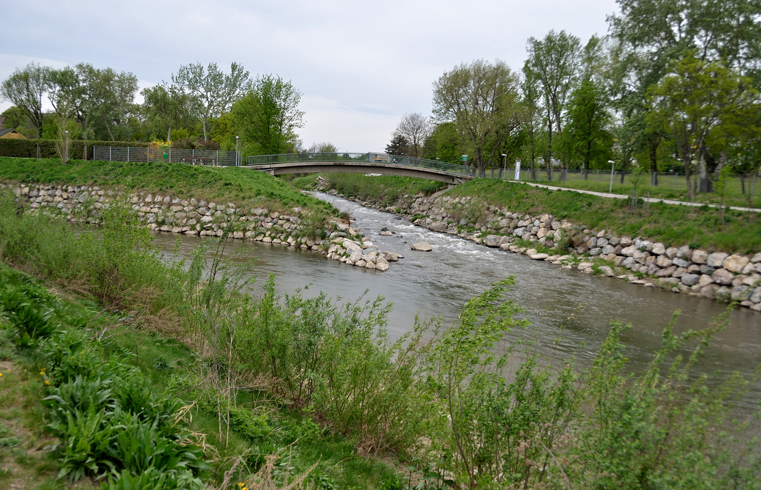 Confluence of river Old Schwechat and Liesing with river Mitterbach (New Schwechat) at Schwechat, Lower Austria. The Old Schwechat and Liesing is the river on the orografic left side.